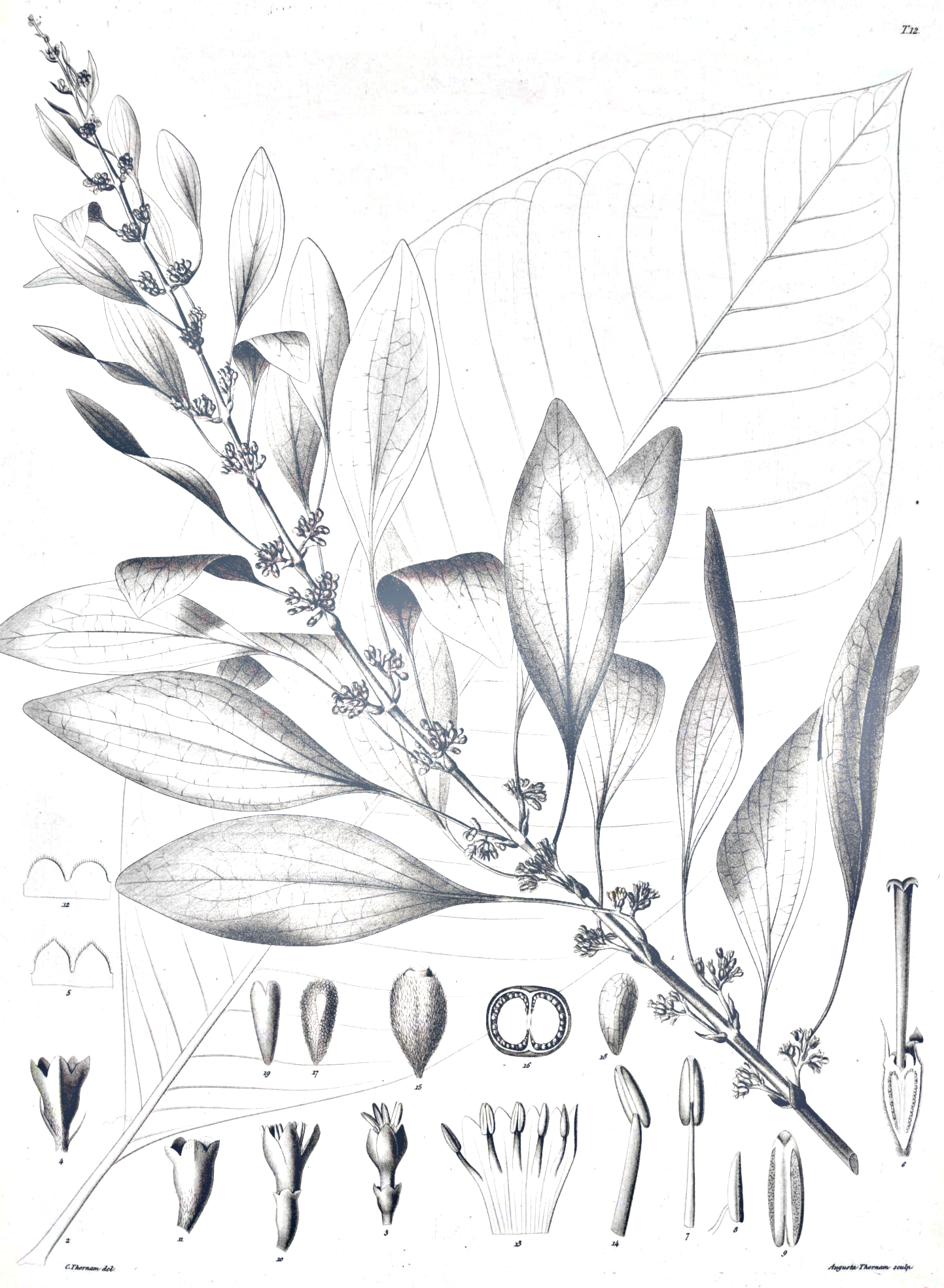 Plate from book